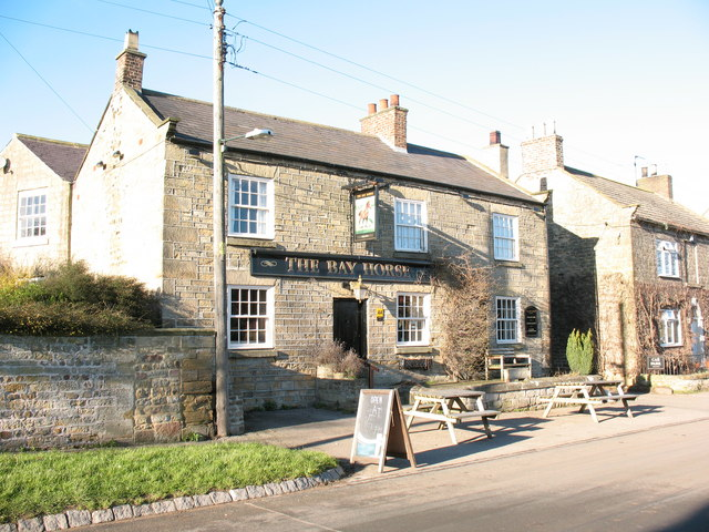 Bay Horse Inn Rainton This stone built inn stands at the western end of the village.